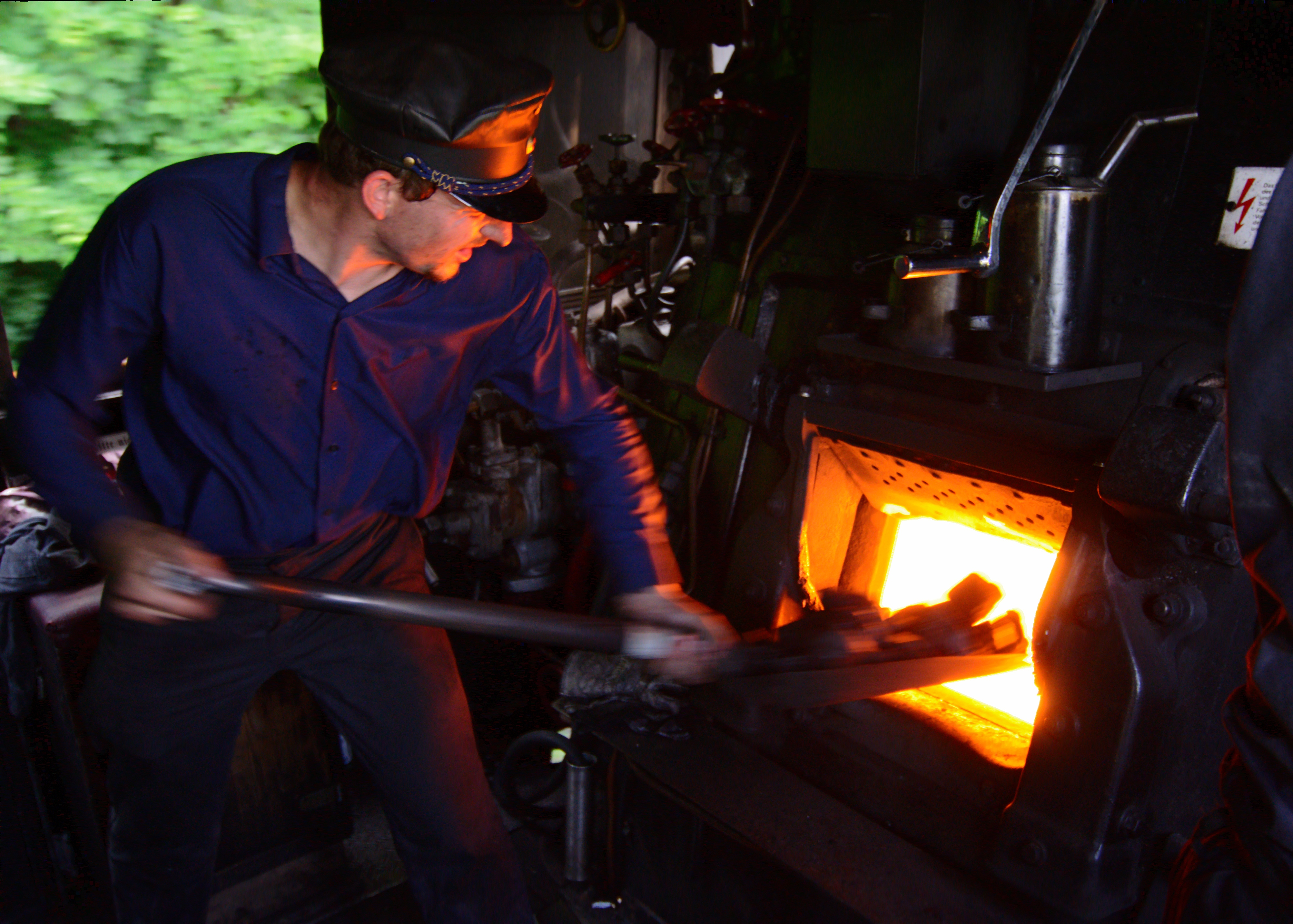 Fireman at work on the german DRB Class 52 7409 named Stadt Würzburg.